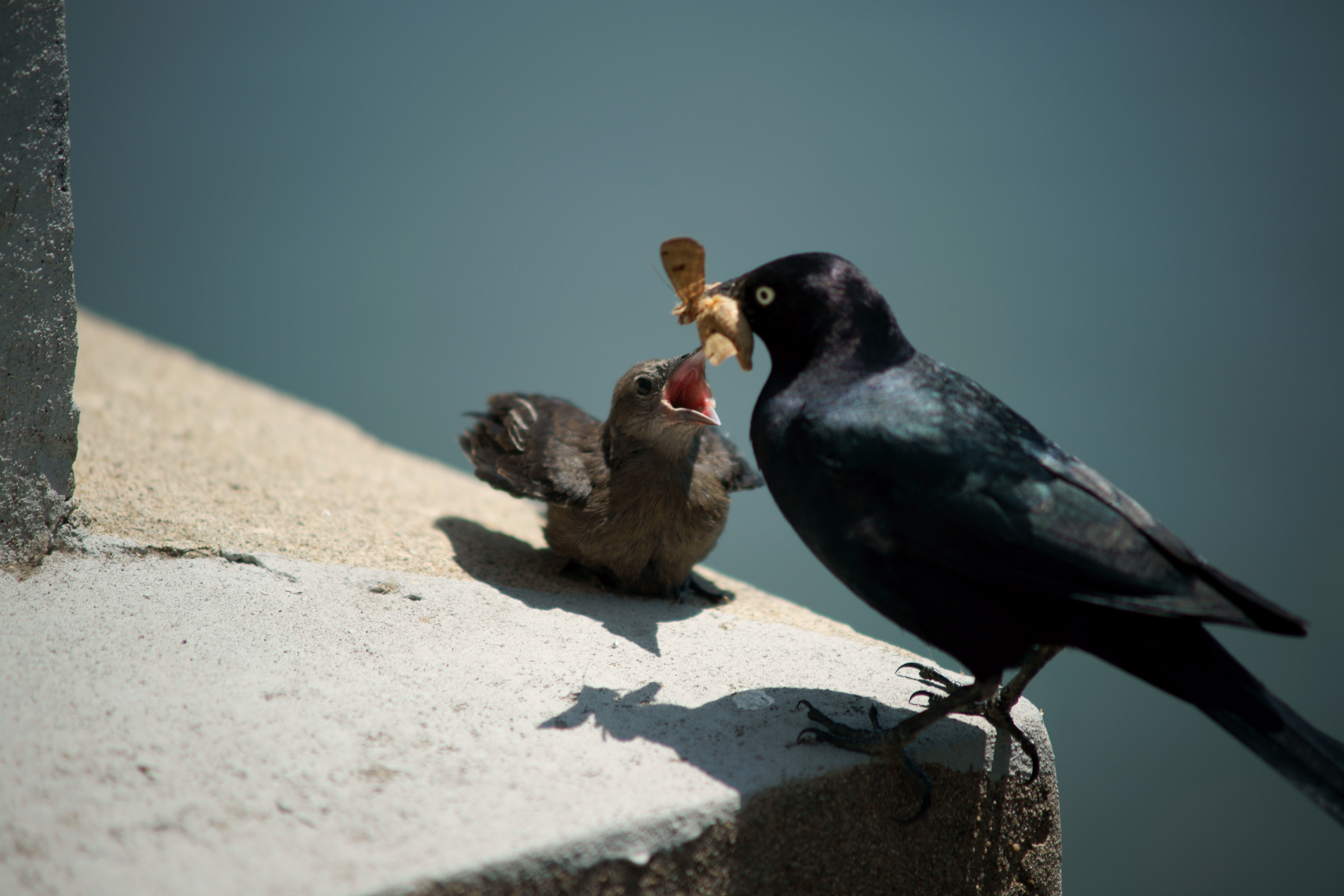 An adult male Brewer's Blackbird feeding a chick in Oakland, California, USA.